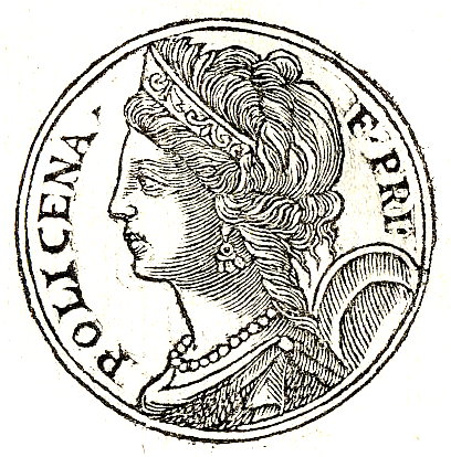 Polyxena was known to be a beautiful Trojan princess from Greek mythology.